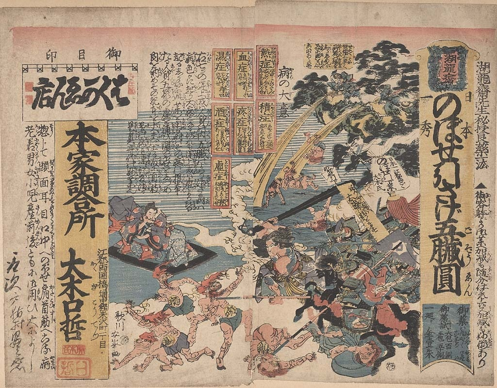 an advertising print for medicine by Utagawa Yasumin, c. mid 19th cent.